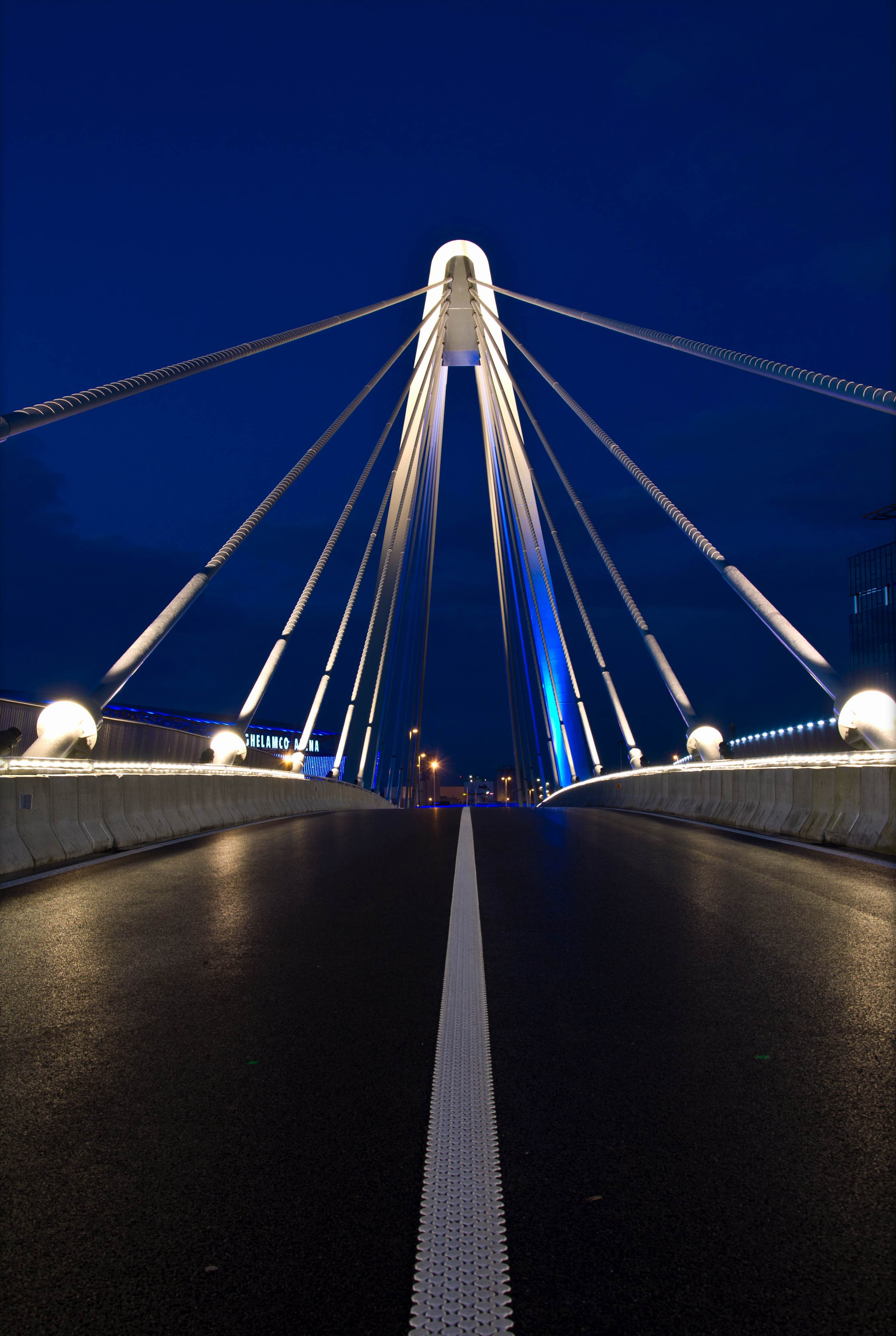 This photo of immovable heritage has been taken in the Flemish Region